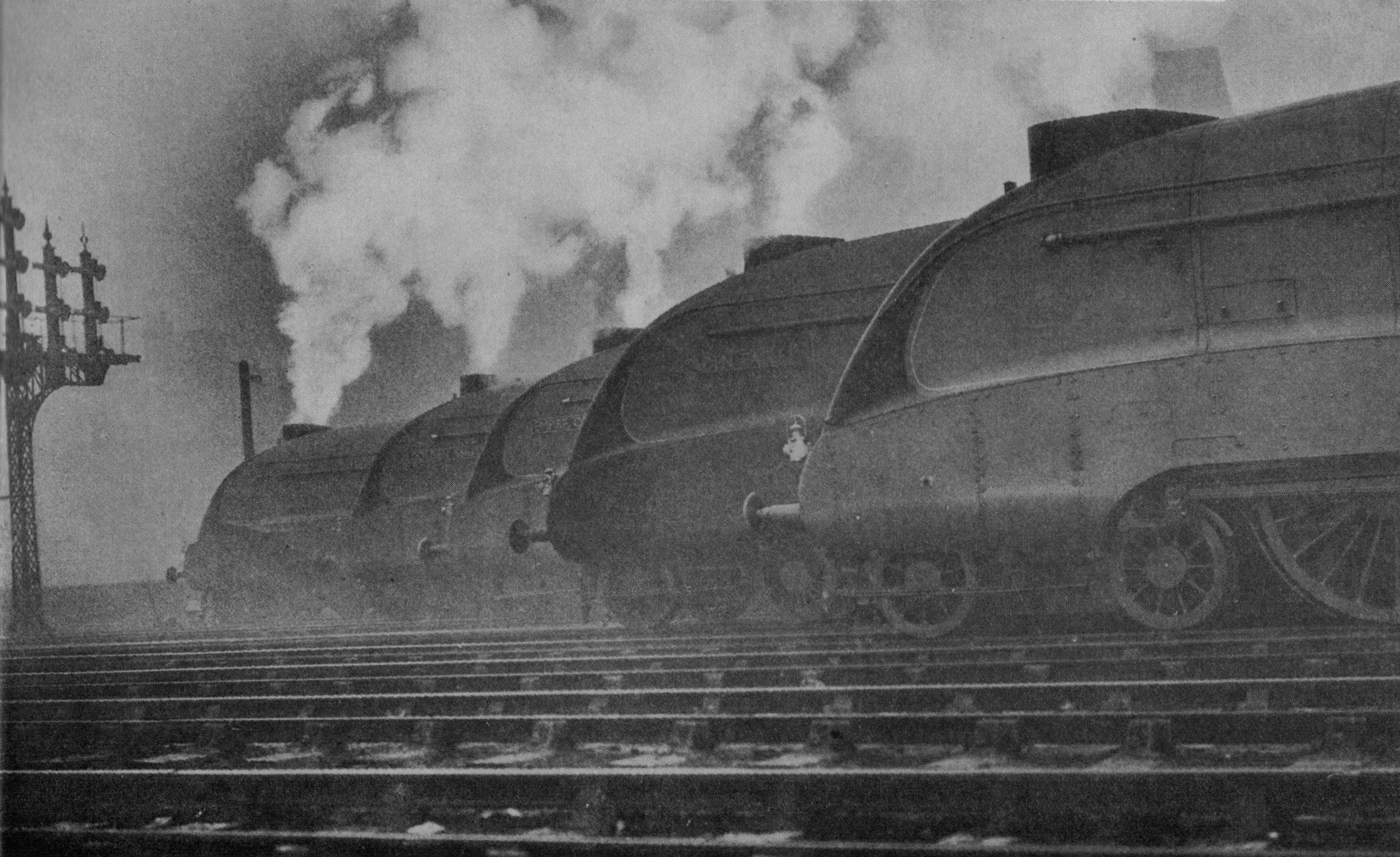 Five LNER streamlined locomotives: Dominion of New Zealand, Golden Shuttle, Empire of India, Golden Eagle and Nº 10,000 Photographed in London, November 30, 1937 This is after the unique Nº 10,000's rebuilding, but while the A4s still have their two-tone paintwork and the full-depth streamlined valances. Approximate date of photograph: 1937-11-30